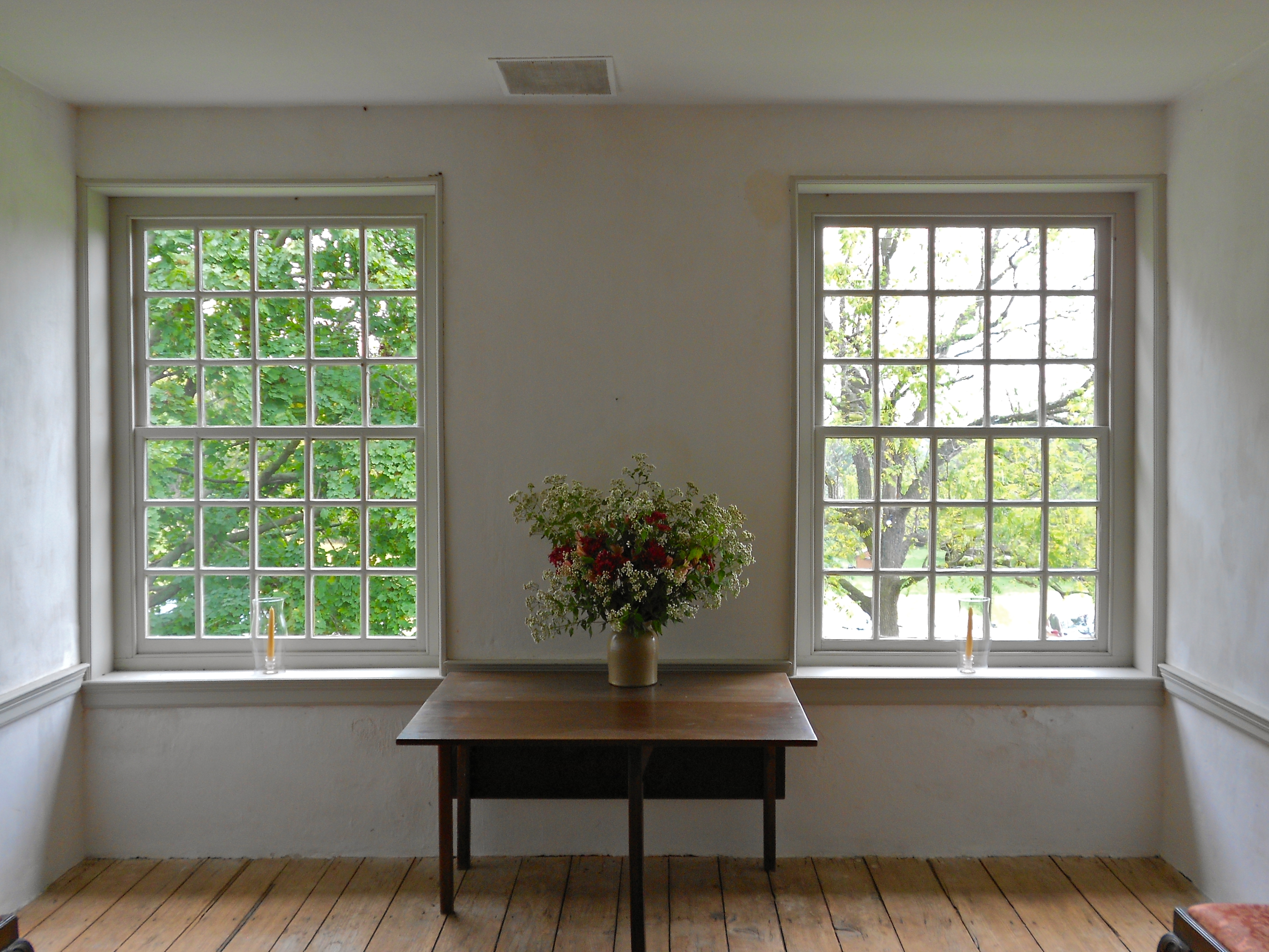 Upper hall of Primitive Hall in Chester County, Pennsylvania. On the NRHP. Note the 15 over 15 windows, built 1738